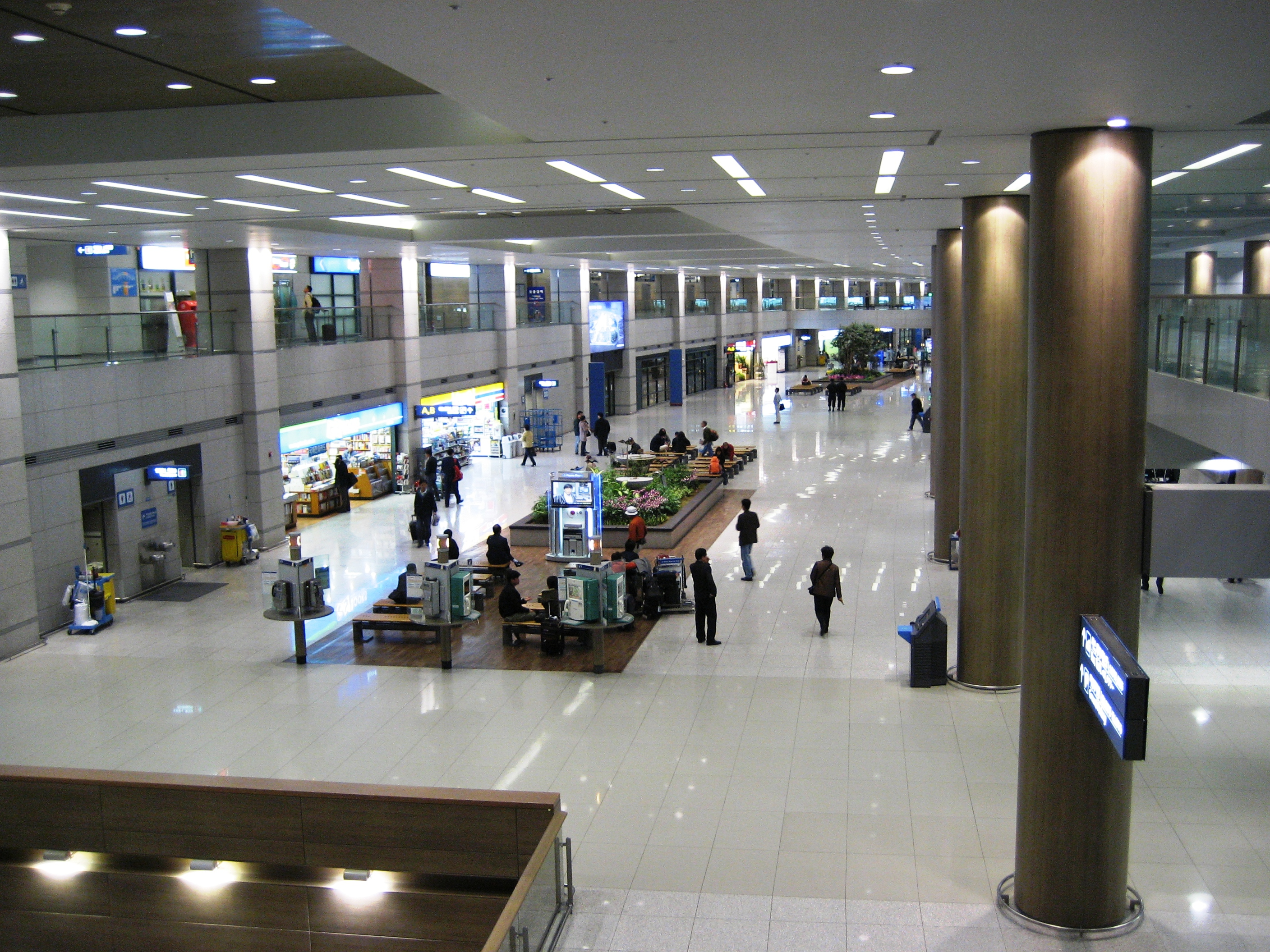 Incheon International Airport,Arrival lobby over view.